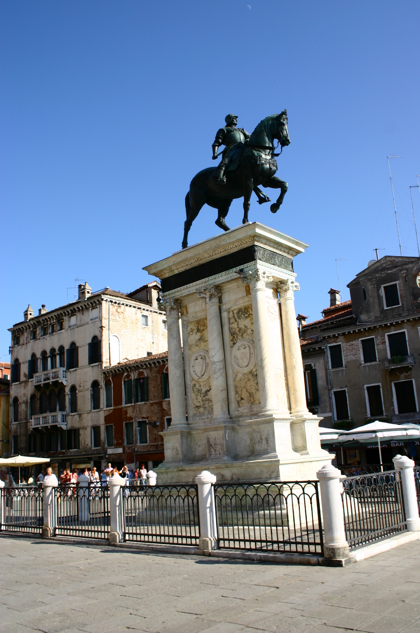 Bartolomeo Colleoni, bronze statue by Verrocchio, in Venezia, "Campo dei santi Giovanni e Paolo" square. Picture by Giovanni Dall'Orto, July 2, 2006.